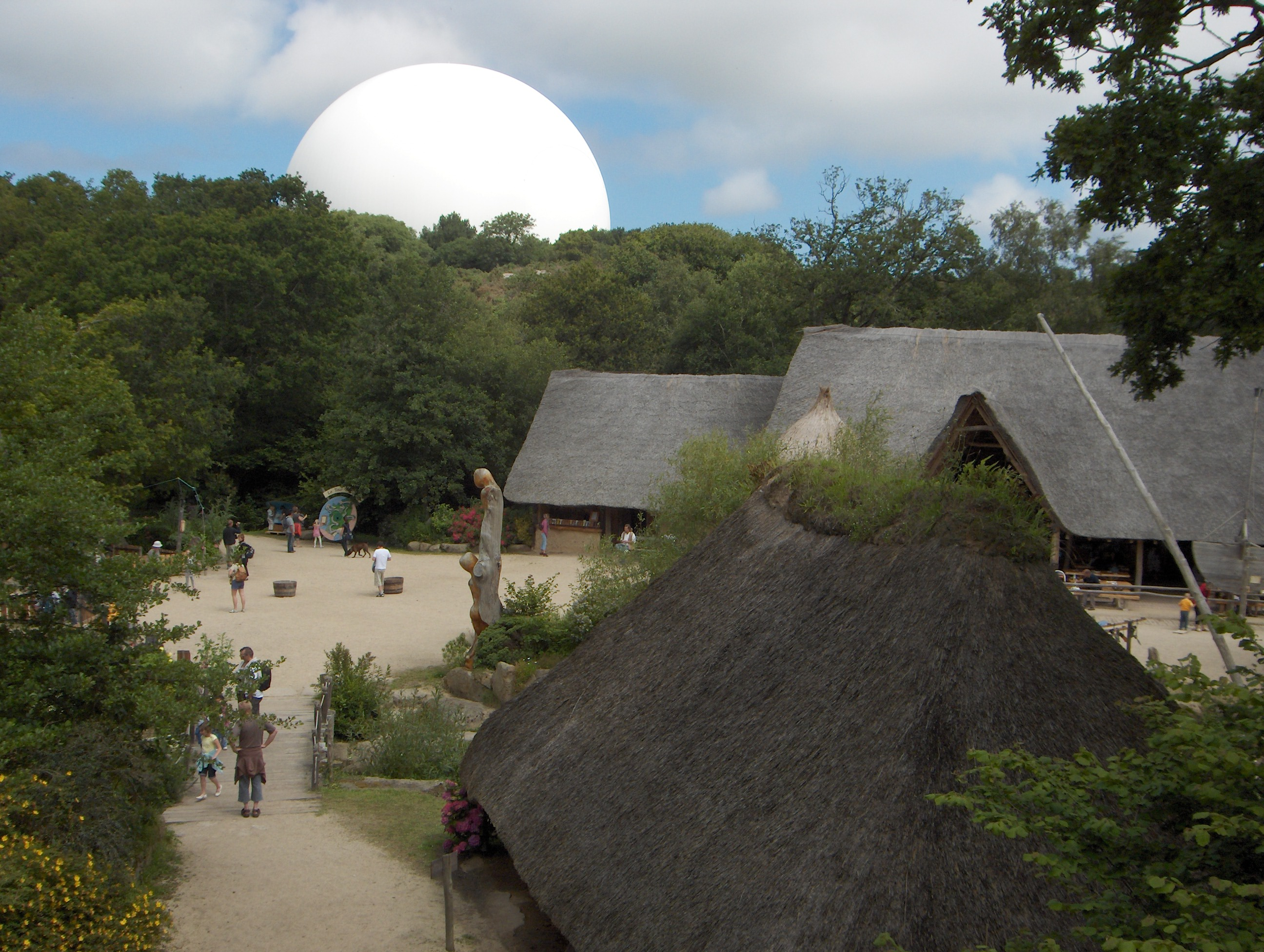 The "Village gaulois" (reconstituted gallic village) in Pleumeur-Bodou.